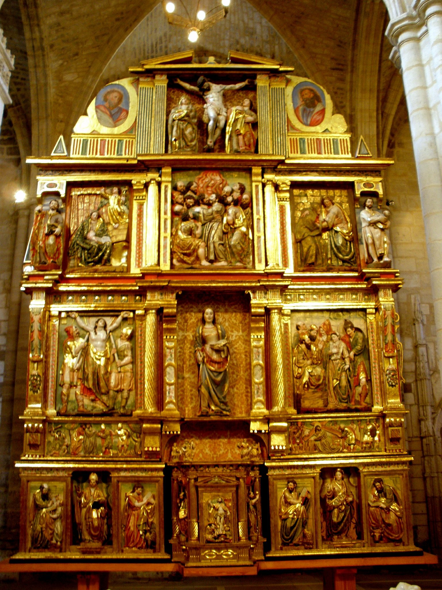 Retablo de Santa Eulalia de Mérida (s-XVII), procedente de Arconada de Bureba, Burgos. En el Museo del Retablo/Iglesia de San Esteban (Burgos, Castilla y León, España)